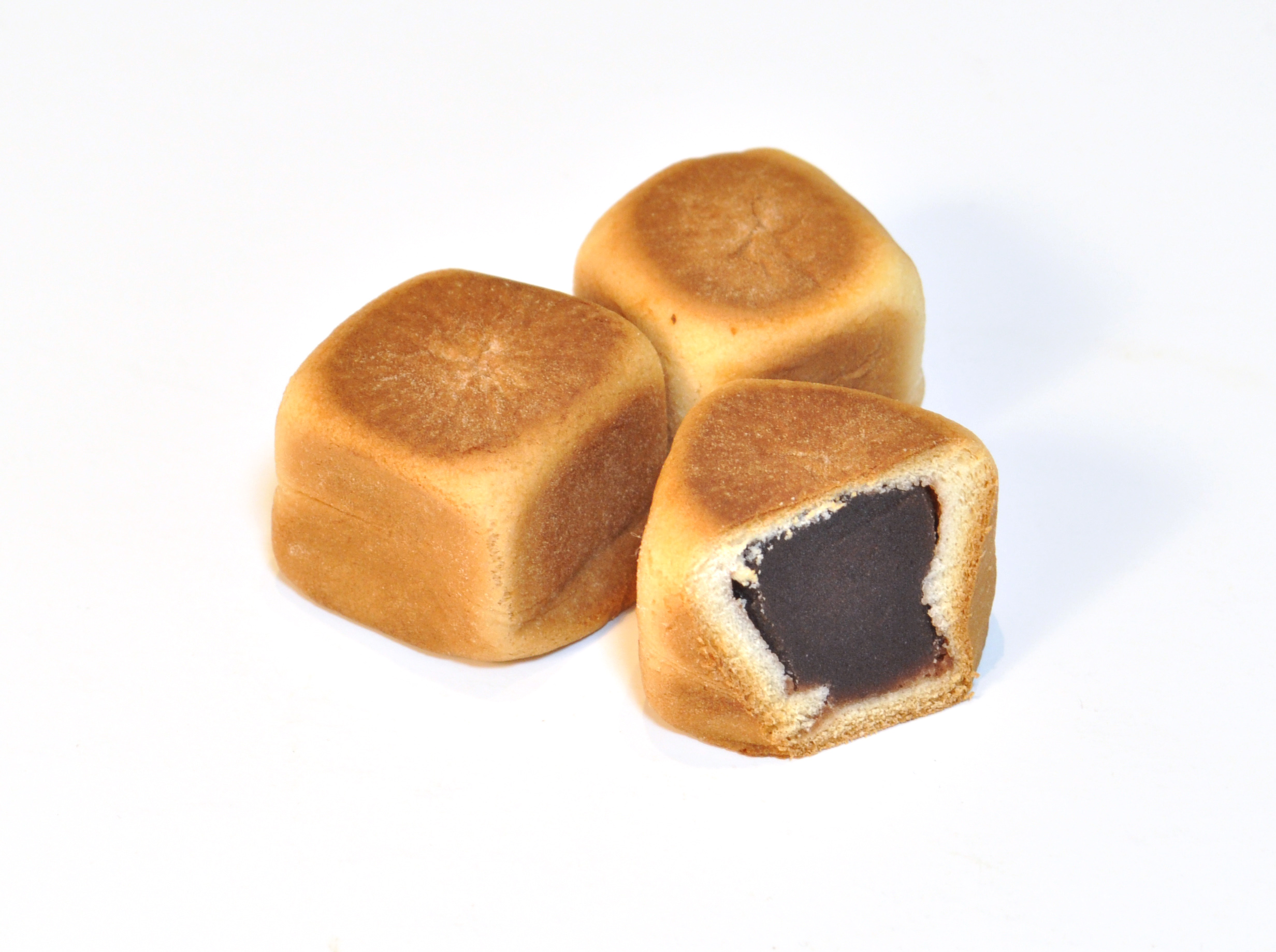 Typical sample of Roppōyaki.